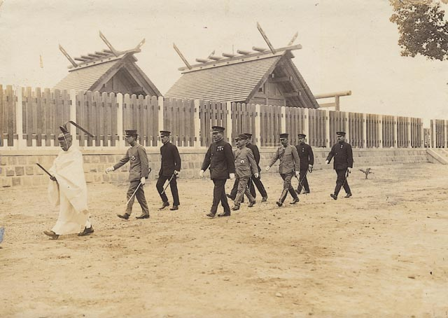 Crown Prince Hirohito visit to Tainan Shrine